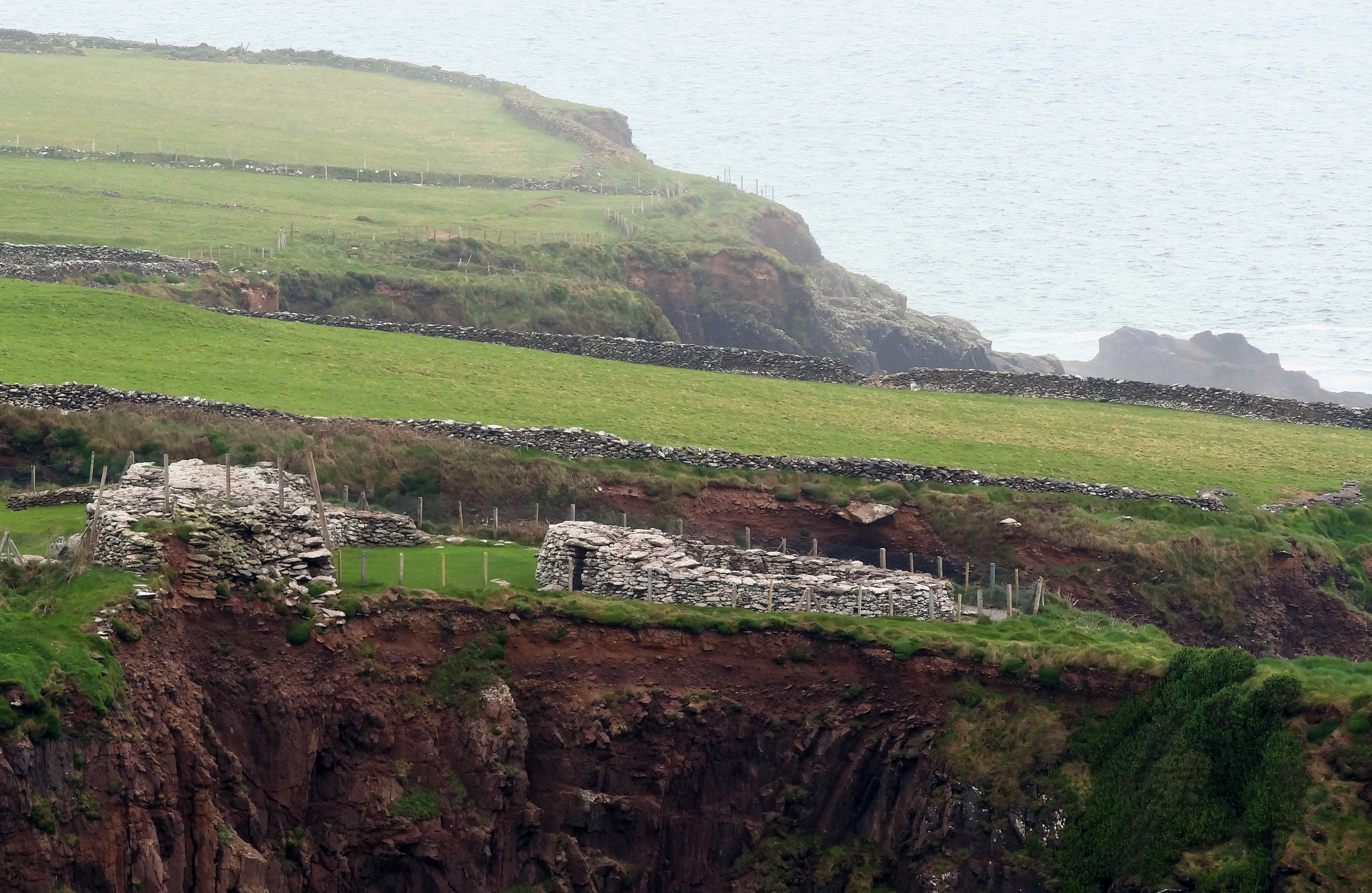 The Dunbeg promontory fort on the Dingle Peninsula is a defensive structure located above a steep cliff, connected to the mainland by a small neck of land, thus utilizing the topography to reduce the ramparts needed. It probably dates back to the Iron Age.